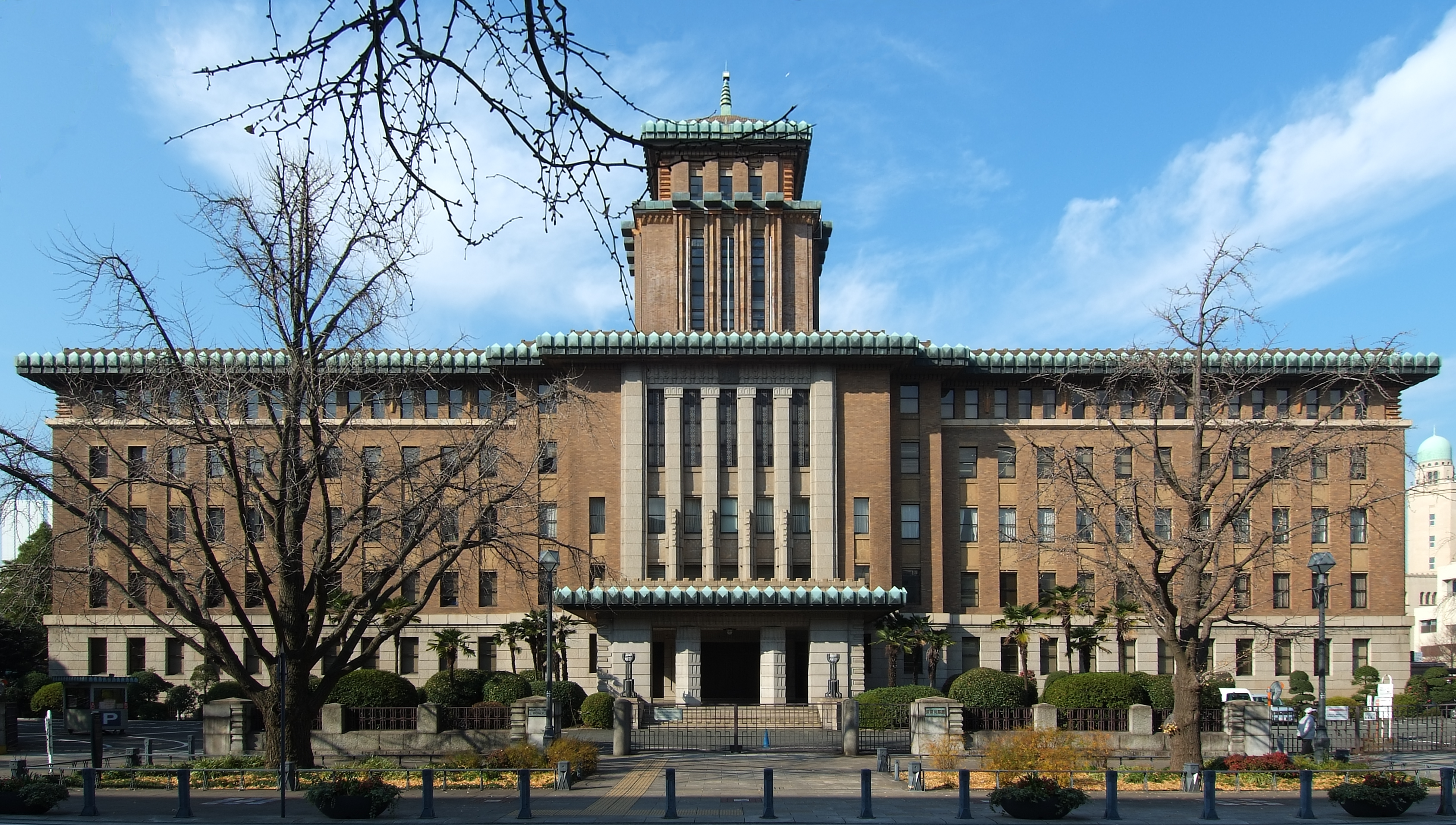 Kanagawa Prefectural Office in Yokohama, Japan.